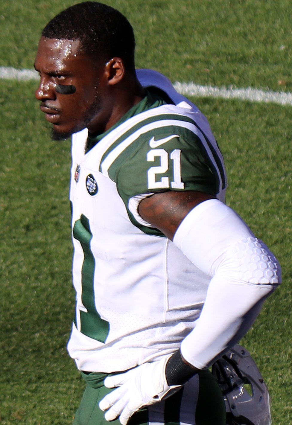 Morris Claiborne, a National Football League player.